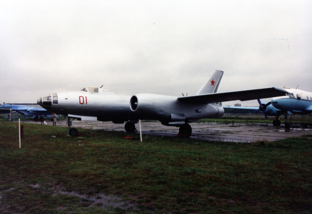 PictionID:42250567 - Title:Ilyushin Il-28 Ilyushin IL-28 cn 36603807 Khodinka Air Force Museum Sep93 2 - Catalog:15_003115 - Filename:15_003115.tif - - --- Image from the Charles Daniels Photo Collection album "Moscow Air Museums" which contains images Mr. Daniels took while visiting Russia----PLEASE TAG this image with any information you know about it, so that we can permanently store this data with the original image file in our Digital Asset Management System.----SOURCE INSTITUTION: San Diego Air and Space Museum Archive